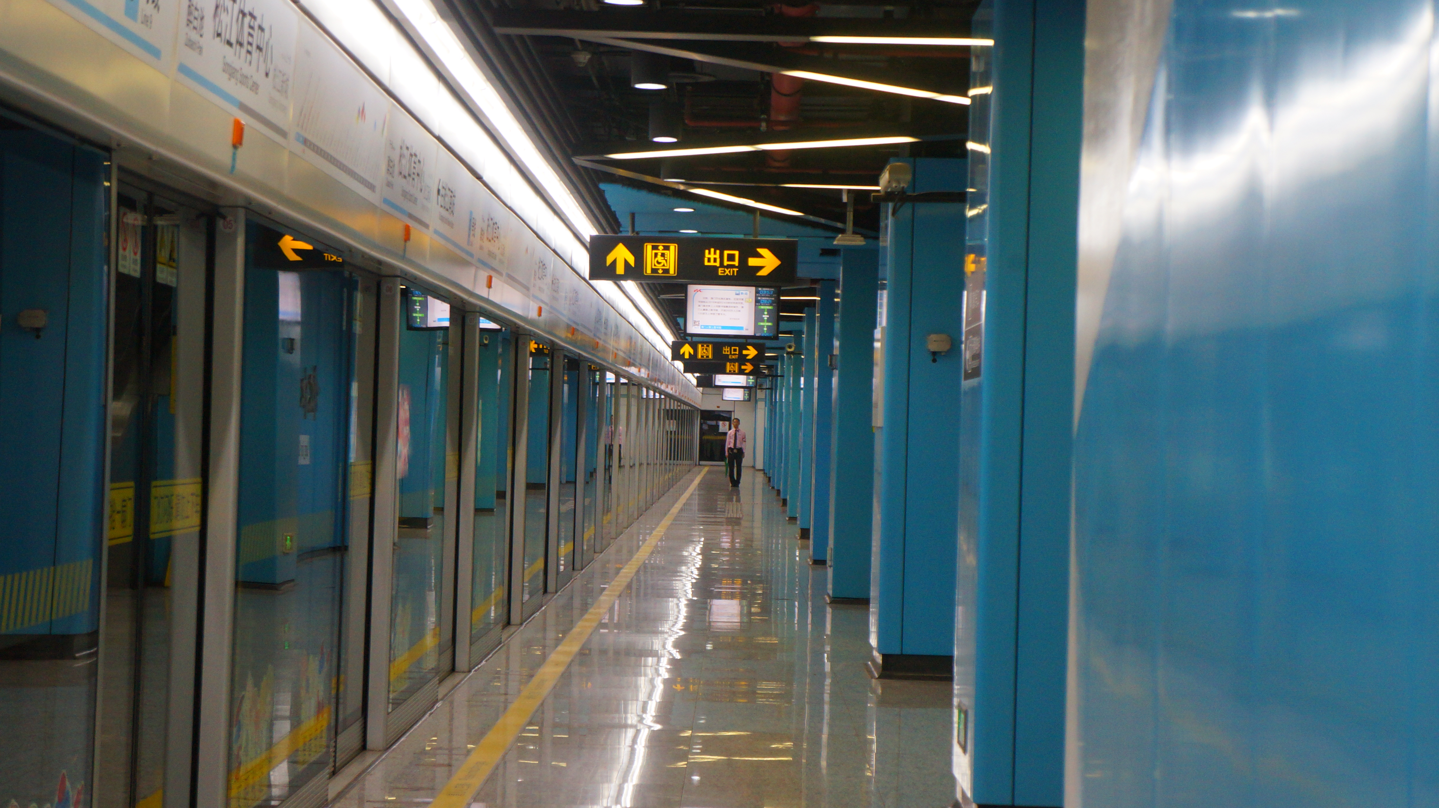 Platform of Songjiang Sports Center Station